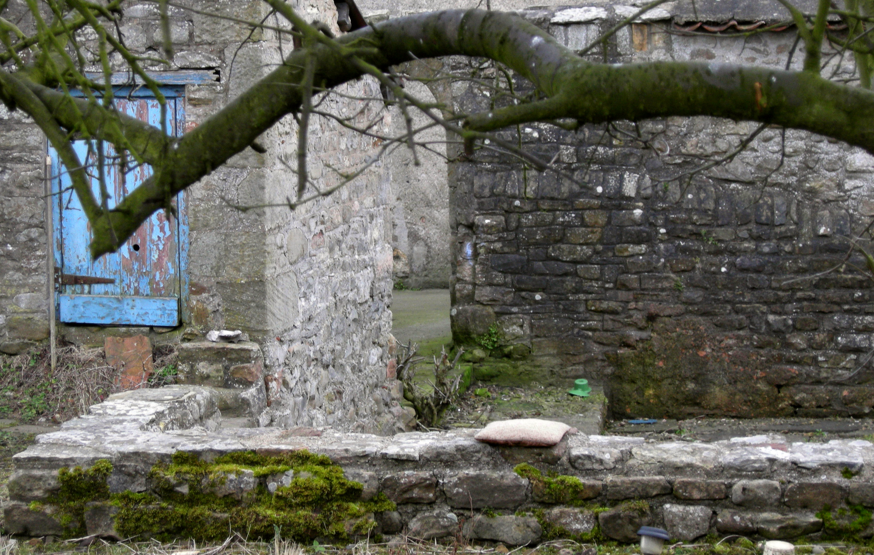 Piercebridge Roman fort, Piercebridge, County Durham, England. Roman bath house wall, once incorporated into 13th century St Mary's chapel, now a scheduled ancient monument. There is a walk-through arch, but the probable clue to Roman origin is the bricked-up barrel-vault arch to the right of the opening in the wall. This structure is on private property, but visible over a stone wall in the corner of the fort site.